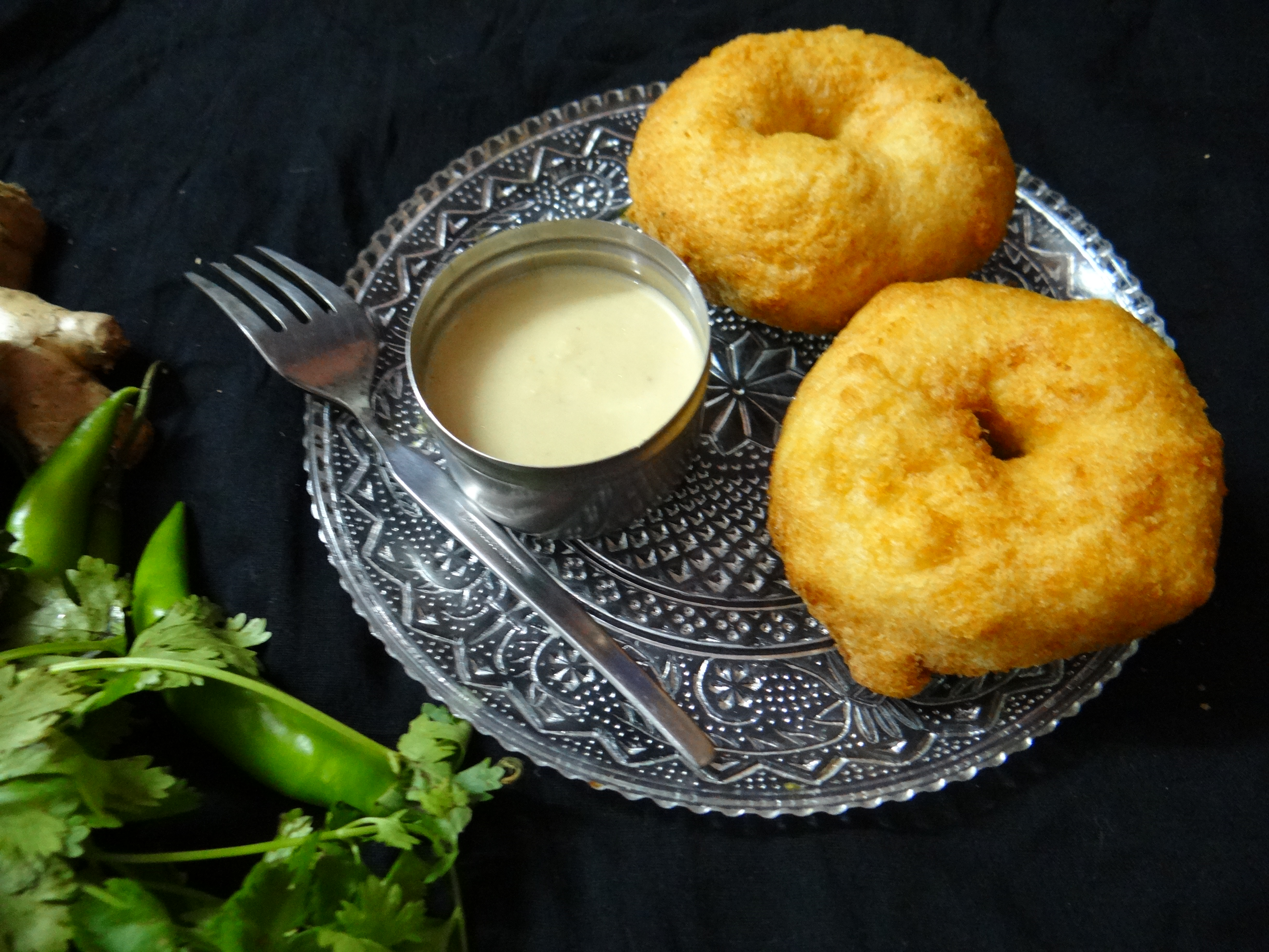 Medu Vada made with urad dal batter, is a traditional main food as well as snacks in South Indian Indian homes, also love to eat rest of India.